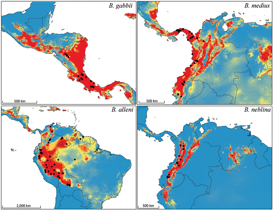 Bioclimatic and geographic distribution models and localities for Bassaricyon species. Models from MAXENT using all vouchered occurrence records, 19 bioclimatic variables, and one potential habitat variable.